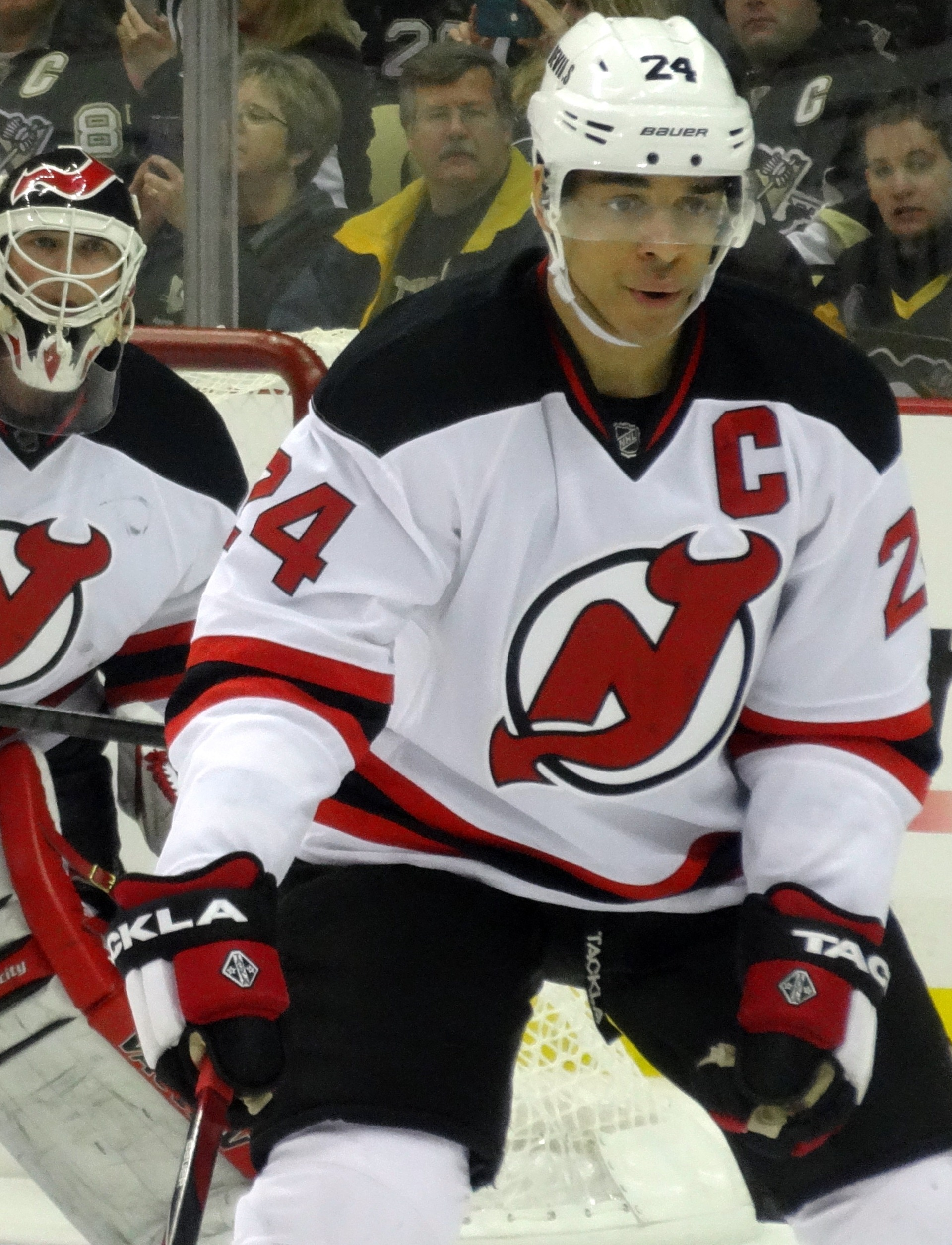 New Jersey Devils defenseman Bryce Salvador in a February 2, 2013 game against the Consol Energy Center in Pittsburgh, PA.